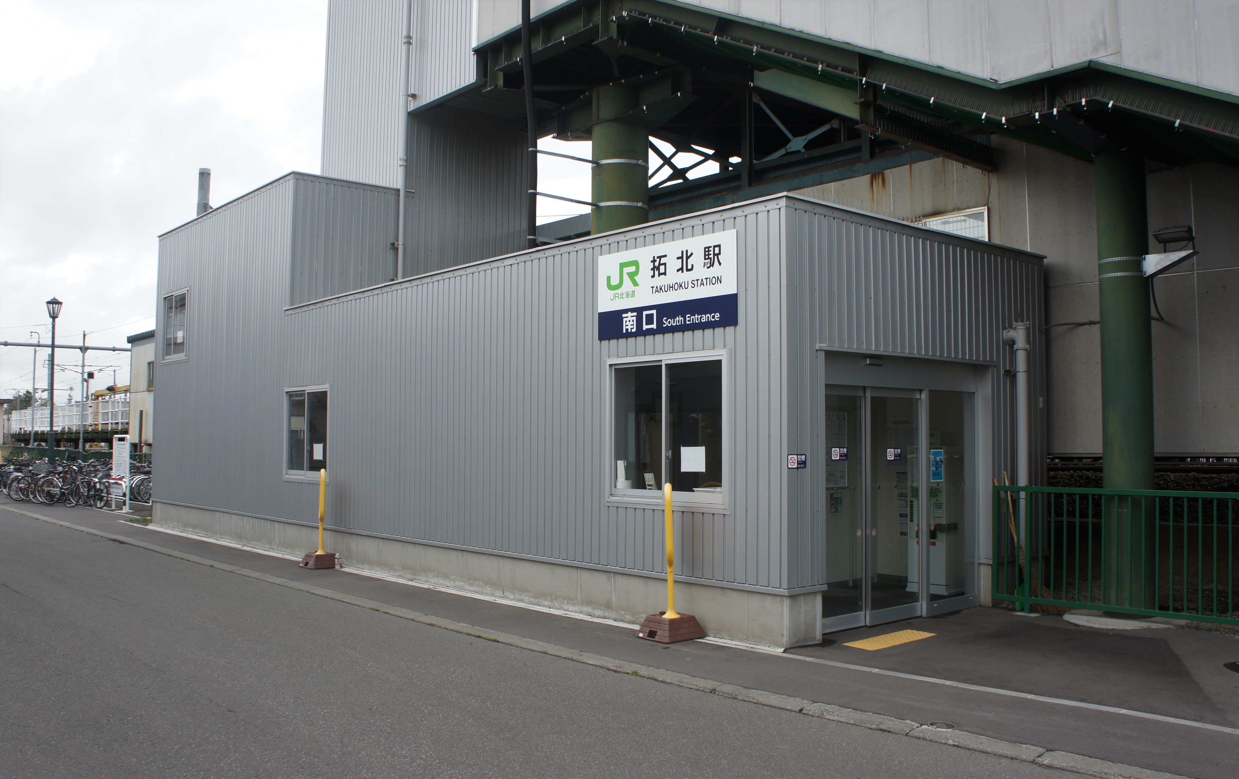 South Exit of JR Sassho-Line Takuhoku Station